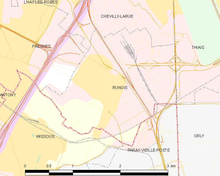 Map of French municipality Rungis